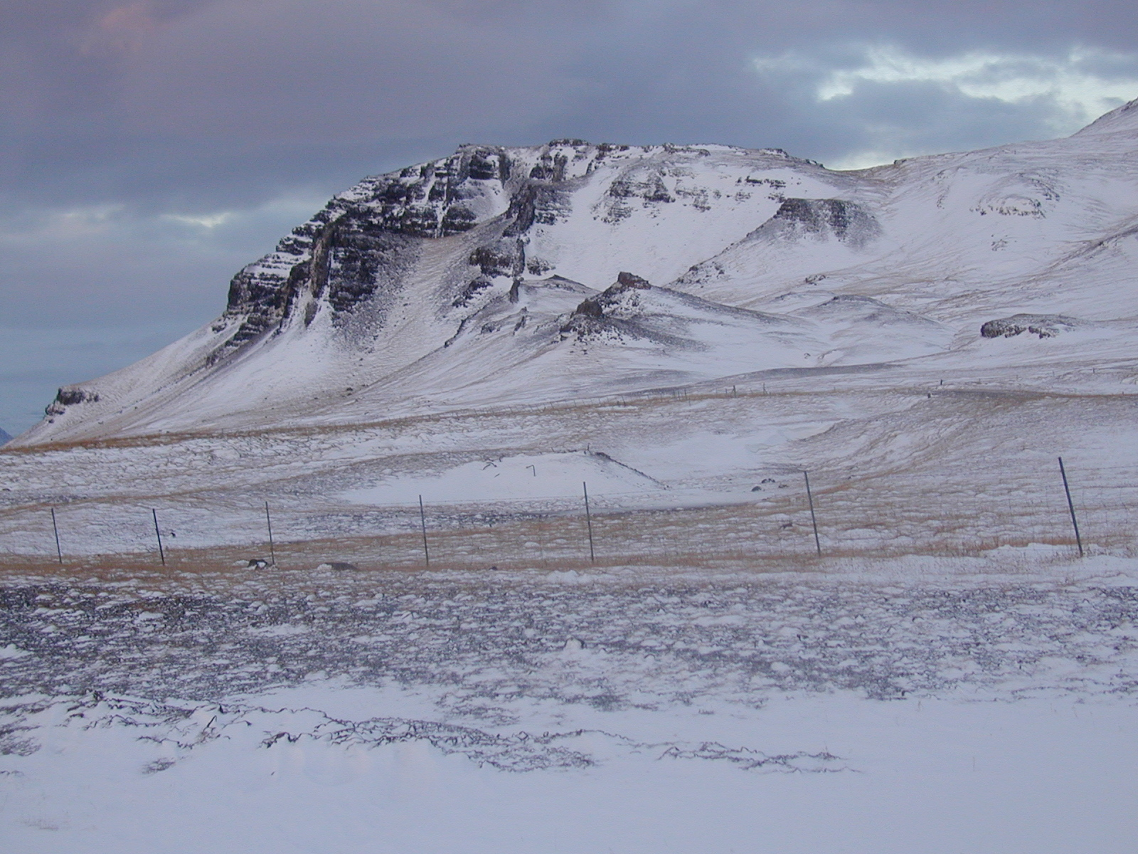 (Maybe) a mountain visible from the road near Kjalarnes